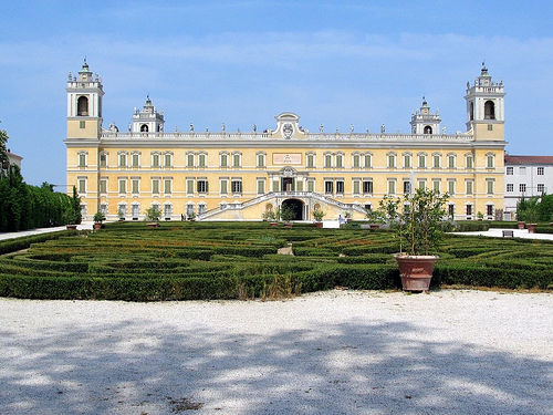 Baroque parterre gardens of the Ducal Palace of Colorno - in Parma, Emilia-Romagna.